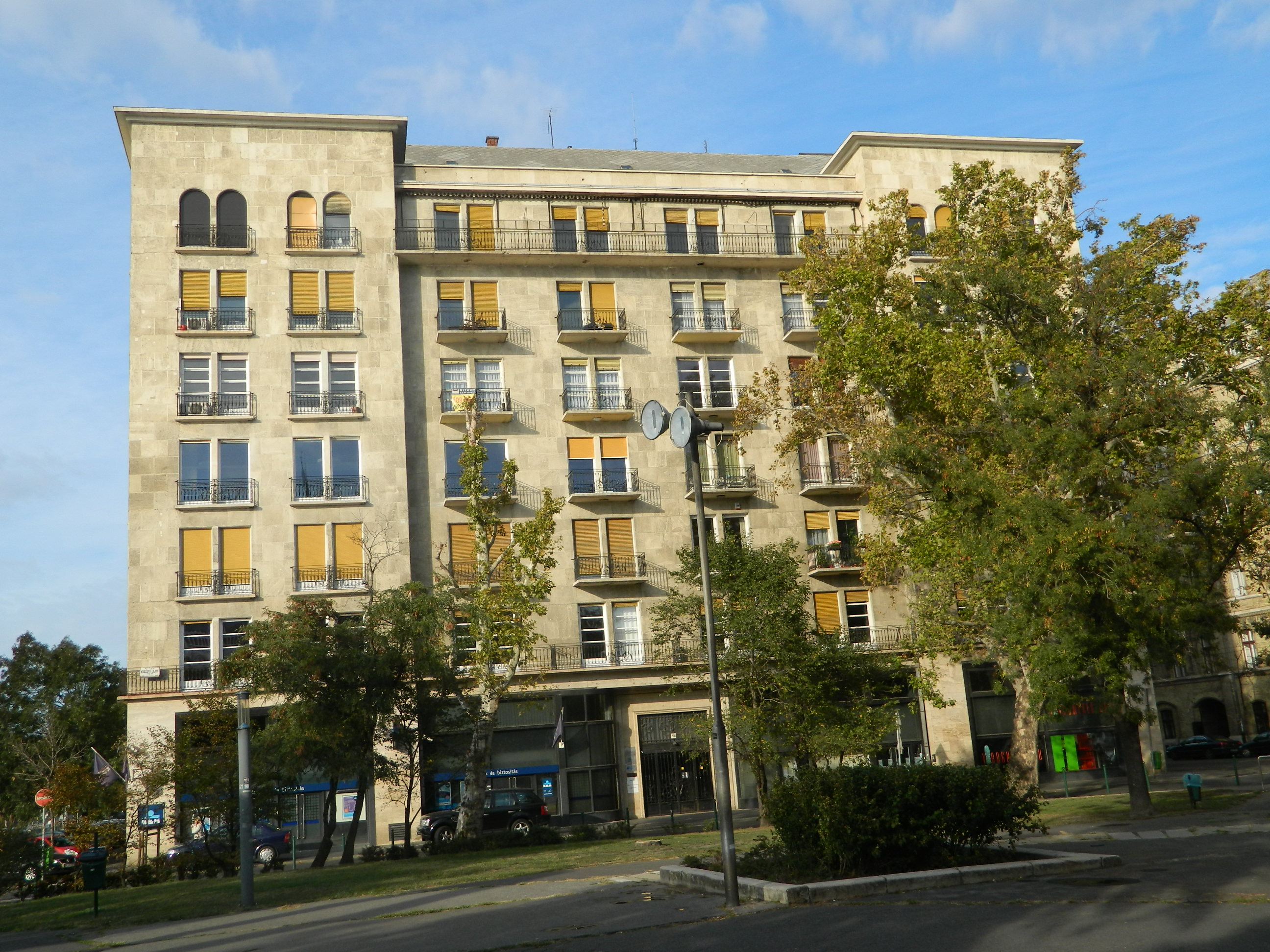 Biarritz house in Budapest. Built 1936 by Imre VerőUnknown a biarritz ház, épült 1936-38 építész: verő imre